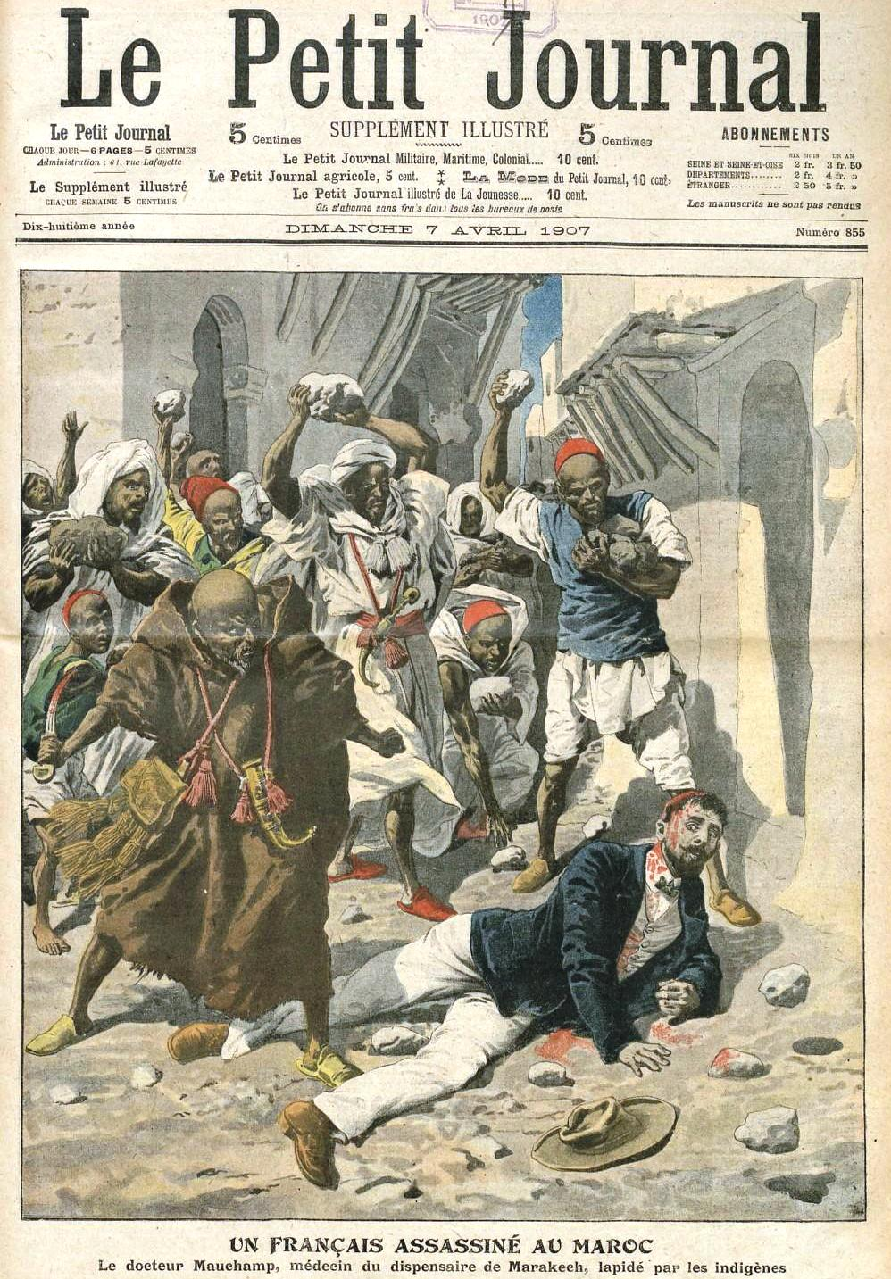 "Un Français Assassiné a Maroc: Le docteur Mauchamp, médecin du dispensaire de Marakech, lapidé par les indigènes" ("A Frenchman assassinated in Morocco: Dr. Emile Mauchamp, dispensary doctor in Marrakesh, stoned by the natives"), illustration published in Le Petit Journal, Paris, No. 855, 7 April, 1907